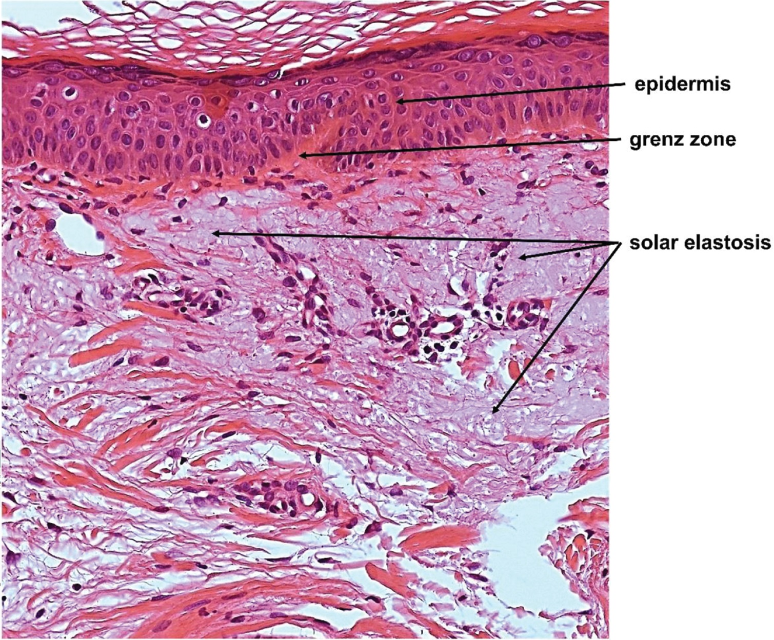 Figure 1. Histology of photoaged skin. The predominant histological finding of photodamaged skin is solar elastosis, which is basophilic degeneration of elastotic fibers in the dermis. Solar elastosis separates from the epidermis by a narrow band of normal-appearing collagen (grenz zone) with collagen fibers arranged horizontally (H&E stating. Original magnification ×400).